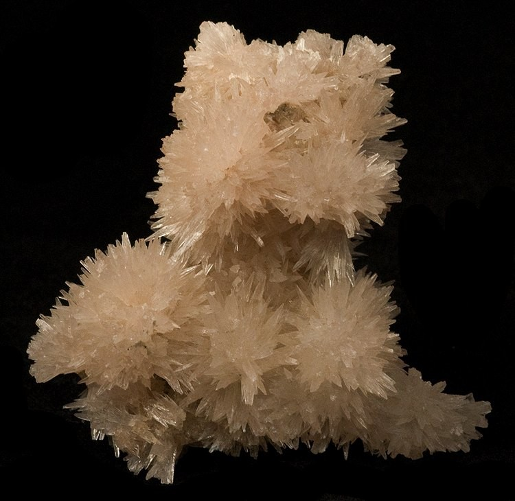 Strontianite Locality: Mahoning No. 1 Mine (Minerva No. 1 Mine), Ozark-Mahoning Group, Cave-in-Rock Sub-District, Illinois - Kentucky Fluorspar District, Hardin County, Illinois, USA (Locality at ) Size: 5.7 x 5.0 x 3.1 cm. A superb specimen of connected intergrown balls of strontianite and covered with glassy, colorless needles. Classic material from the Minerva #1 Mine of Illinois. Ex. Consie Prince Collection.